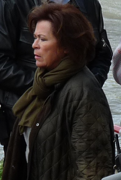 Rita Russek in October 2013.